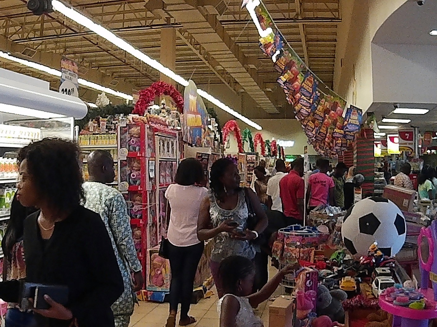 CAMERA This is an image of Cultural Fashion or Adornment from Nigeria